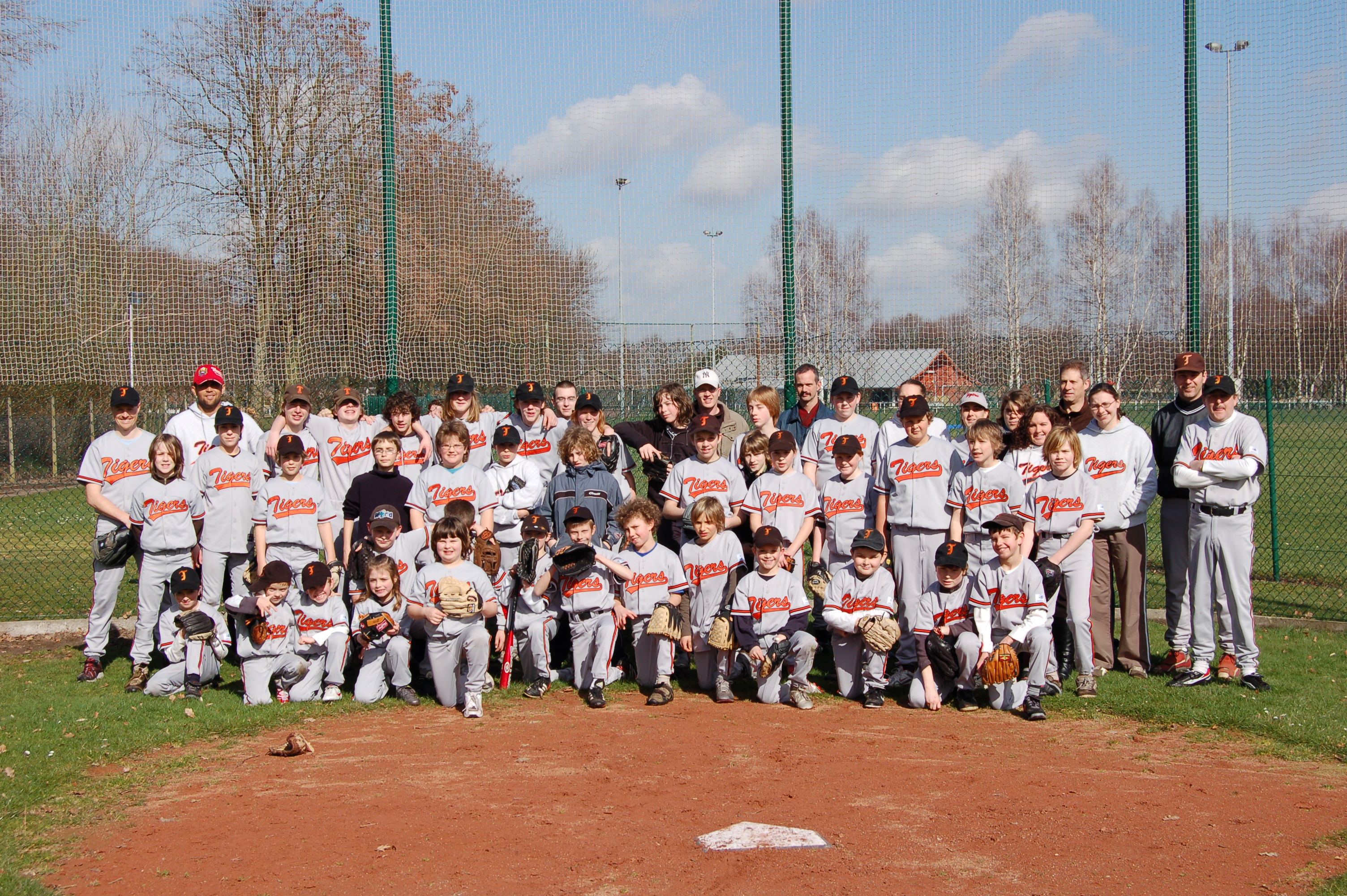 Group photo of all members of the Sunville Tigers (a few are missing).